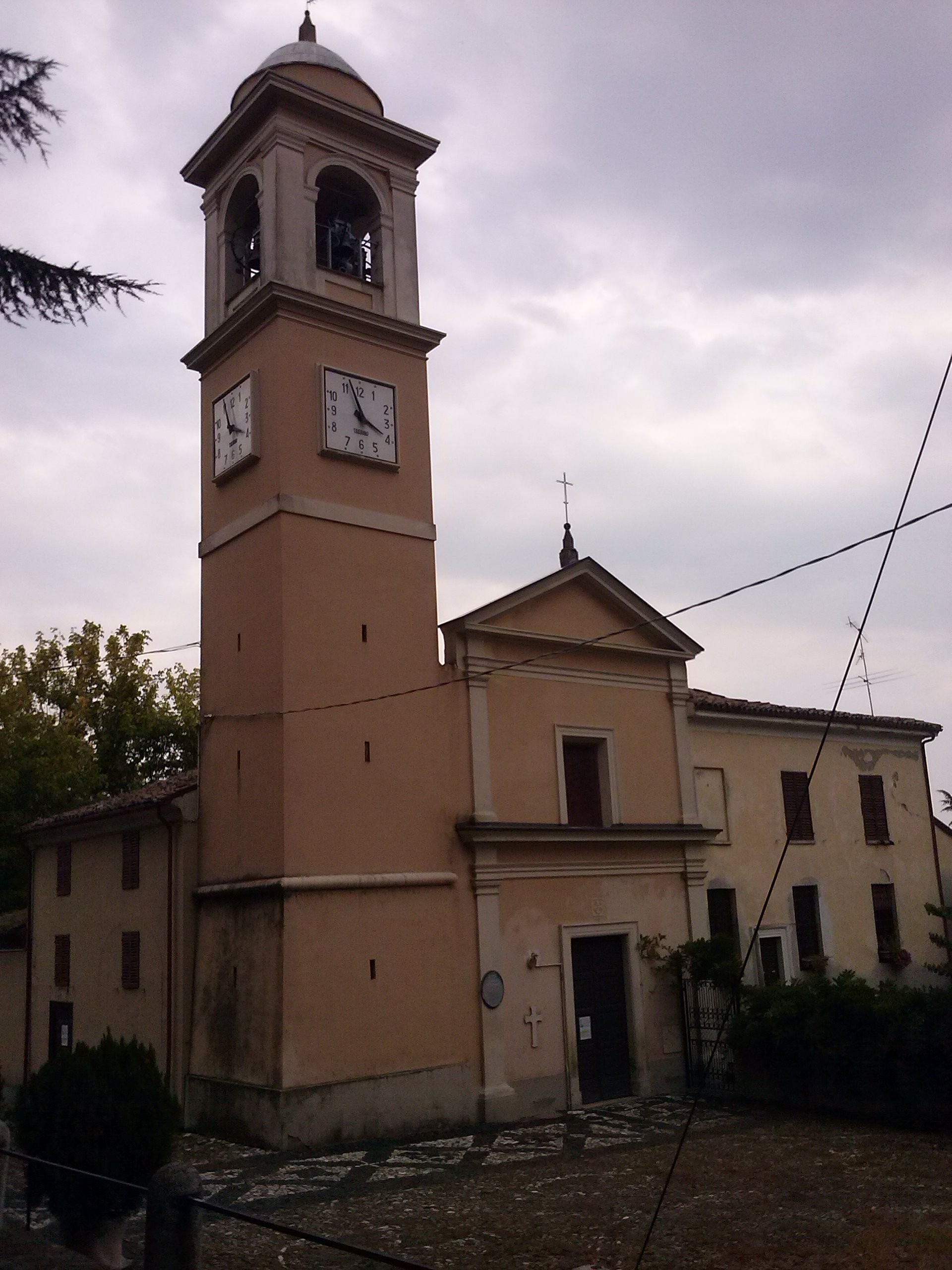 Church of S.Antonino, located in Albarola, municipality of Vigolzone (Piacenza, Italy)